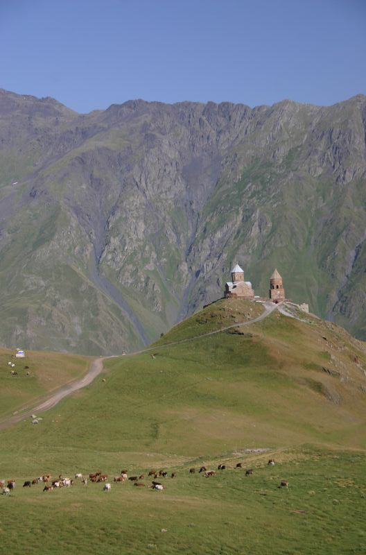 Gergeti Trinity Church